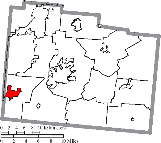 Map of the municipal and township boundaries of Greene County, Ohio, United States, as of the 2000 census, with the location of the city of Bellbrook highlighted. Township borders are shown only in unincorporated areas in order to differentiate incorporated and unincorporated areas more clearly.